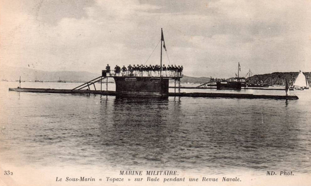 Emeraude-class submarine Topaze